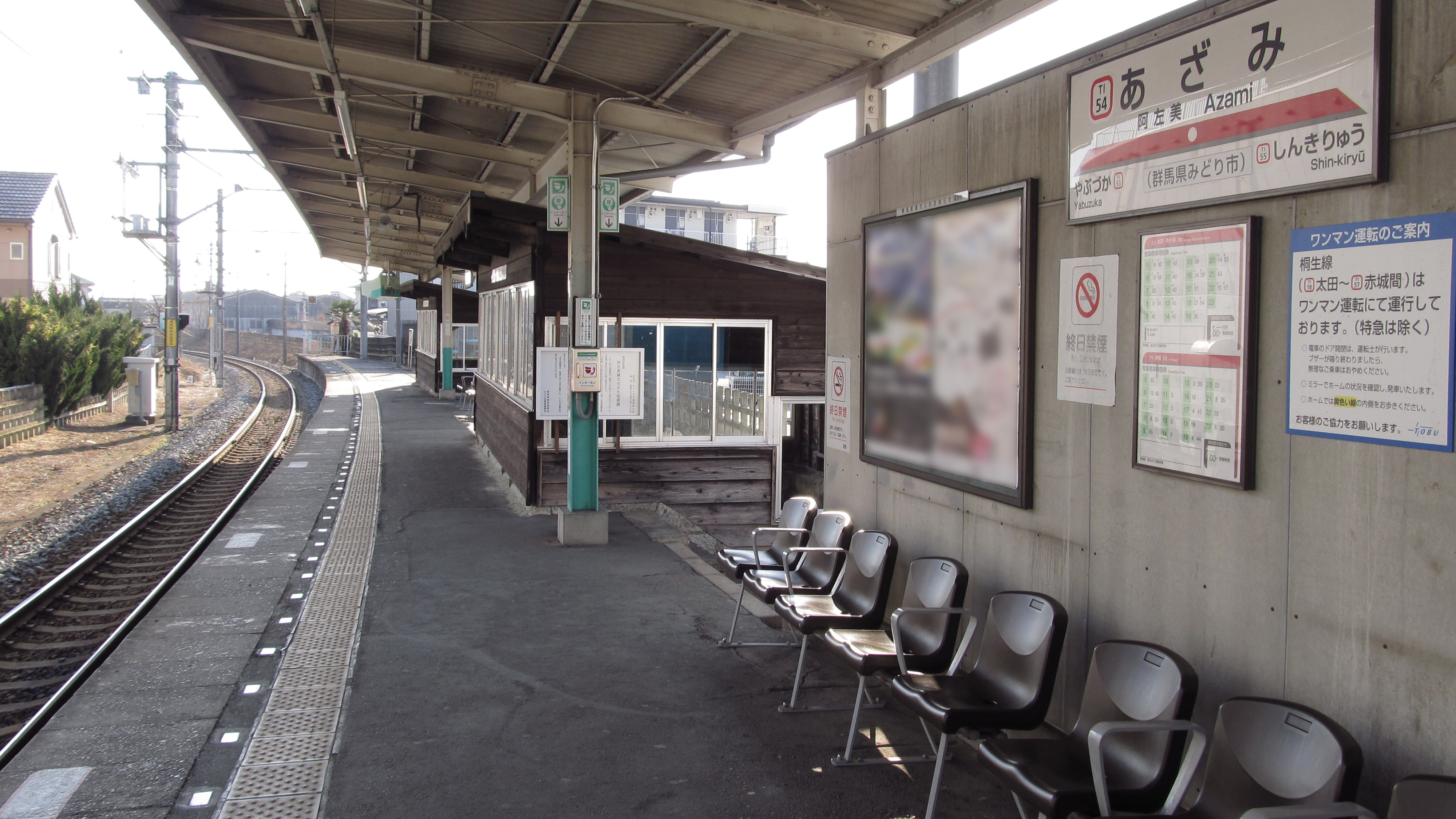 The platform at Azami Station on the Tobu Railway Kiryū Line in Midori city, Gumma prefecture, Japan